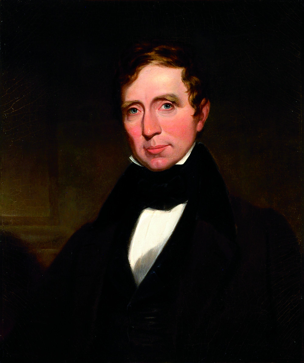 Portrait of Bishop John Emory (1789 – 1835) by American painter George Esten Cooke (1793–1849).